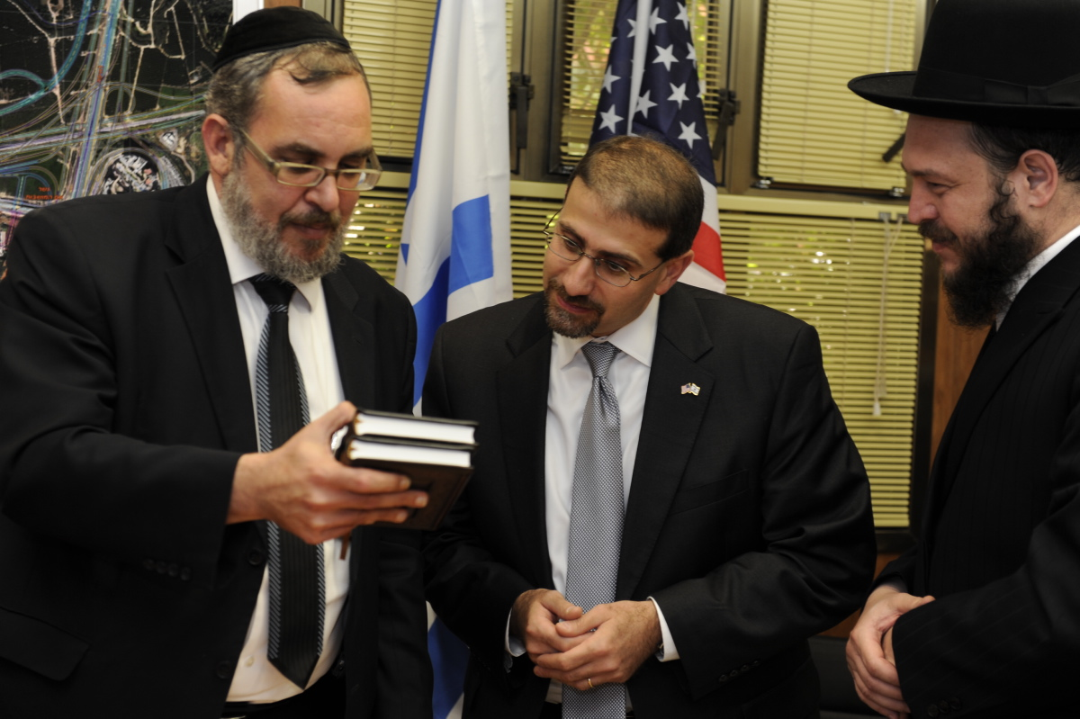 U.S. Ambassador Dan Shapiro visit the city of Beni Brak U. S Ambassador Dan Shapiro and Ms Julie Fisher made a pre-Rosh Hashanah visit to Bnei Brak. There they met with Mayor Rabbi Yaakov Asher and other city officials and learned first-hand about the economic developments, challenges and opportunities taking place in Bnei Brak within the ultra-orthodox communities. They took the opportunity to meet Rabbi Aharon Leib Steinman, prominent ultra-orthodox spiritual leader of the Lithuanian communities, at his residence. There they heard Rabbi Steinman praise America, echoing the words engraved in the Statue of liberty, for opening its doors to ”the poor and needy”, that is what made America great, the land of the free. Following this meeting, the Ambassador and his wife toured Ateret Rachel Women’s Seminary, where they met, among others, the president of the seminary , Mrs. Zippi Yishai; the principal of the school, Rebbetzin Zvia Bukhris; and Rabbi Zemach Mazuz, the head of Kisse Rahamim Yeshiva, Bnei Brak. The school receives US funded grant for English language instruction. They entered a class and spoke to the students, and took questions, on the importance of learning English. Another highlight was their visit to Mayanei Hayeshua Medical Center, where they were welcomed by Dr. Moshe Rothschild, the founder and president of the medical center, and Rabbi Gershon Lieder, CEO; and Dr. Motti Ravid the Medical Director; and many other senior doctors and staff. They got to see the premature baby wards and maternity wards, learning how the hospital combines medical care with strict ethical care to show the importance and holiness in saving human lives. Ambassador Shapiro ended the visit by shopping at a local deli and eatery on Rabbi Akiva Street. Behind the scenes Rabbi Moshe Eizen, CEO of Bnei Brak Development Fund, who helped make all the arrangements possible.